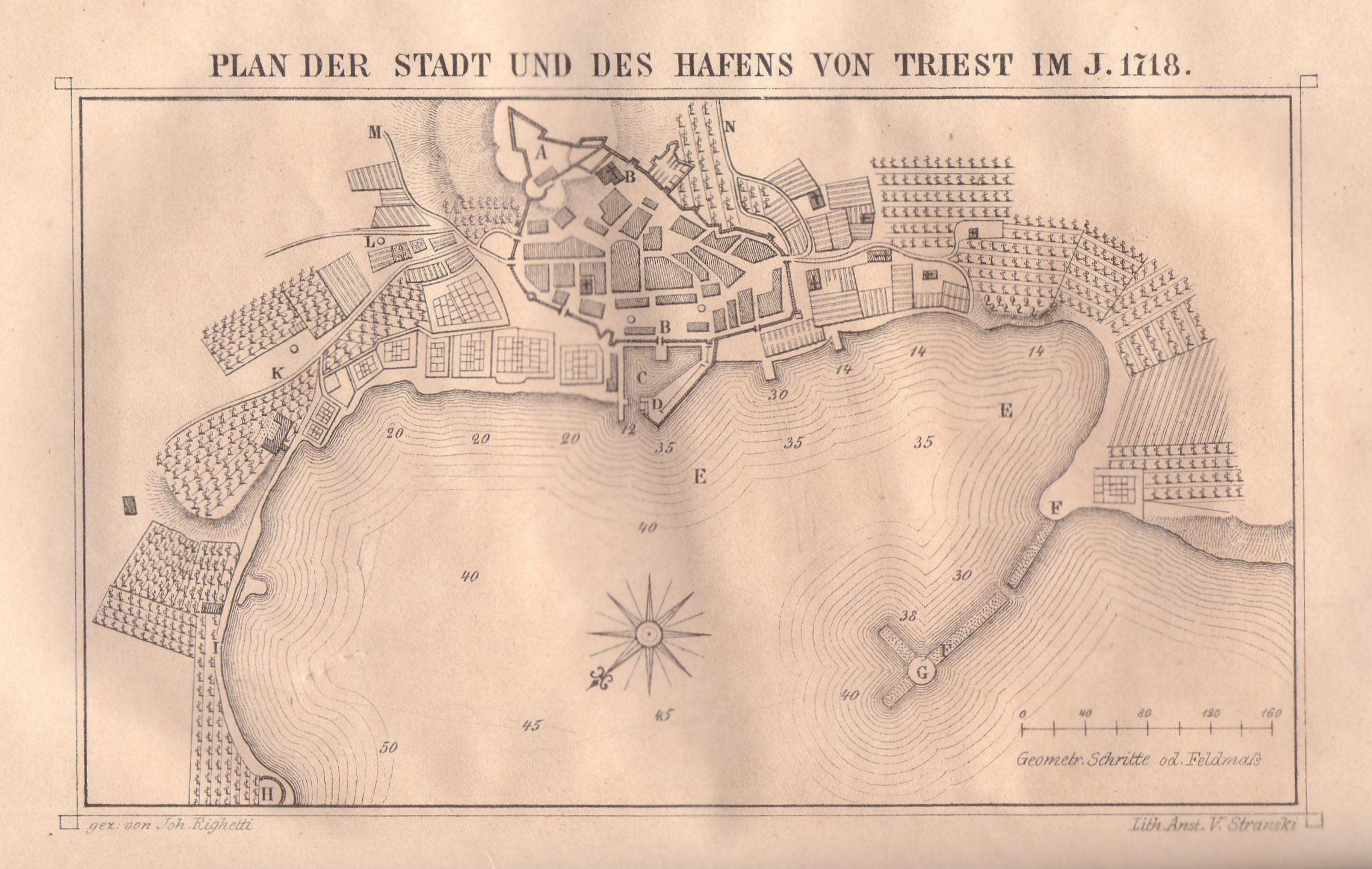 Map of the city of Triest, 1718